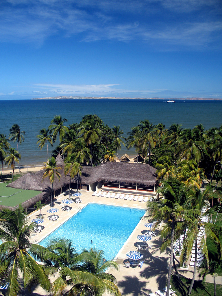 Hotel Los Bordones, Cumaná, Venezuela. This photo is licensed under a Creative Commons license. If you use this photo within the terms of the license or make special arrangements to use the photo, please list the photo credit as "Guillermo Esteves" and link the credit to .